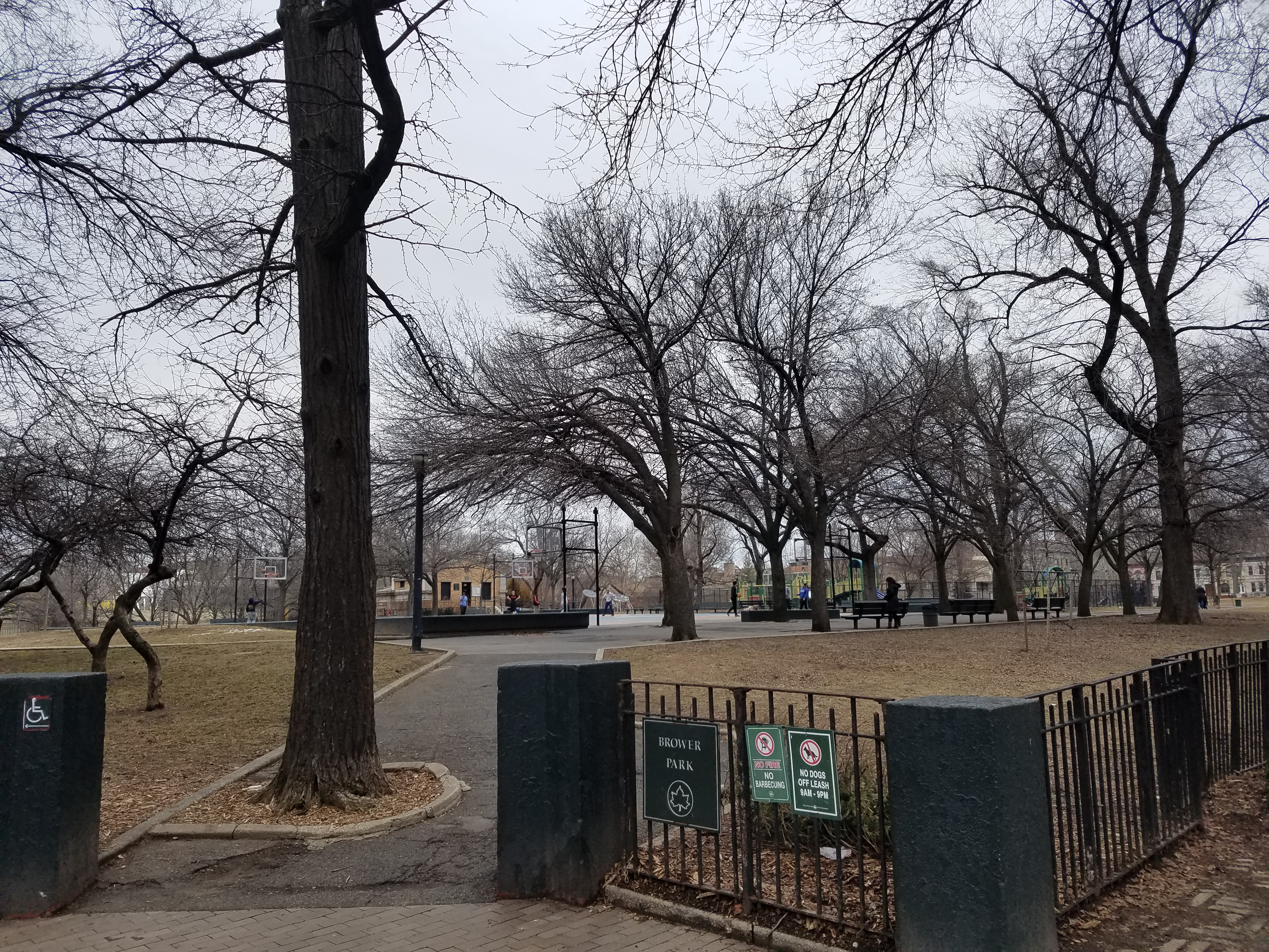 The southeastern entrance to Brower Park in Crown Heights, Brooklyn, New York, US.